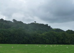 Field outside Llanfyllin